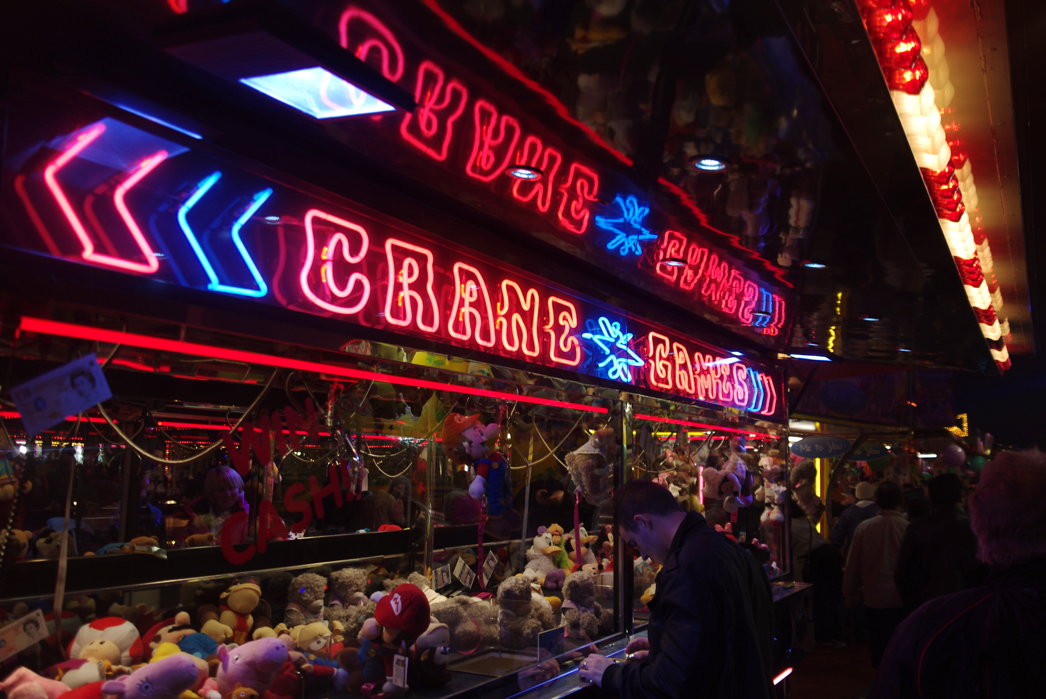 Claw games at The Nottingham Goose Fair.